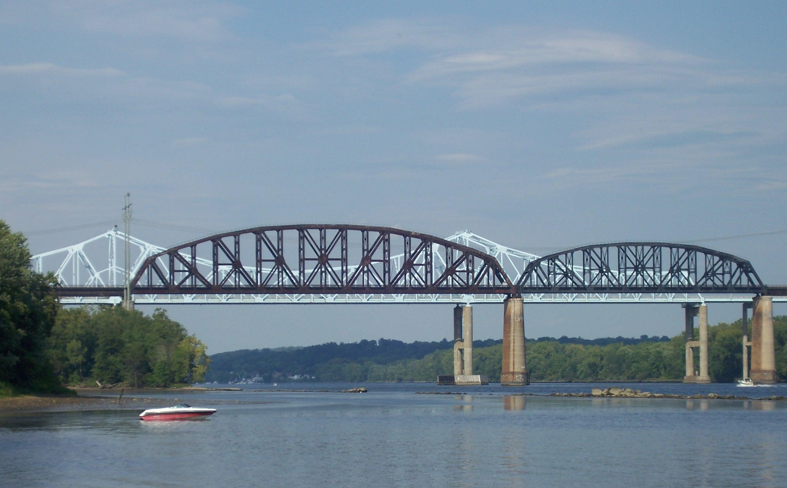 The Castleton Bridge and Alfred H. Smith Memorial Bridge, as seen from the west bank of the river, south of the bridges and directly across the Hudson River from the Schodack Island State Park. Castleton Bridge is the green bridge in the background.